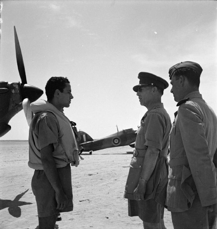 Royal Air Force Operations in the Middle East and North Africa, 1939-1943. King George II of Greece talks to a pilot standing in front of his Hawker Hurricane Mark I, during his visit to No. 335 (Hellenic) Squadron RAF at LG 20/Qotafiya, Egypt. Major X F Varvaresos, Commanding Officer of the Squadron, stands to the right.